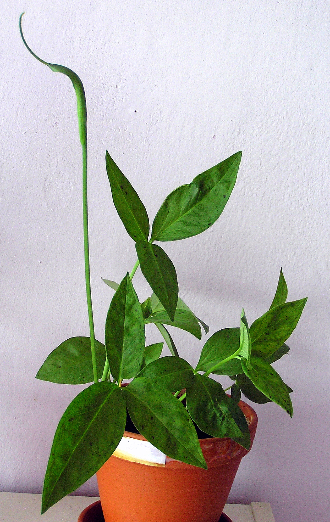 Pinellia ternata in a pot